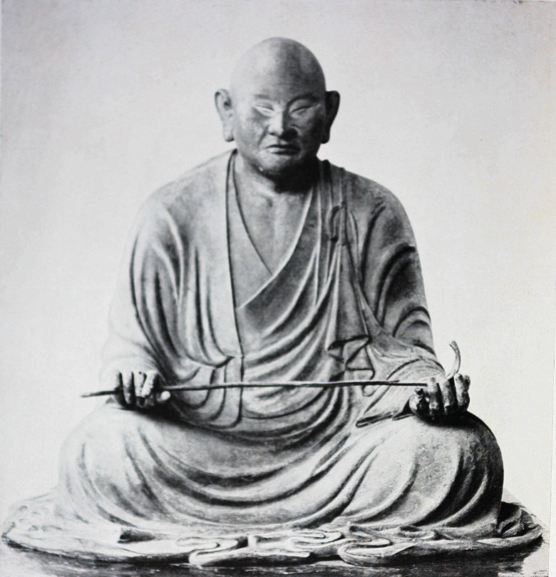 Priest Gyōshin ( kanshitsu gyōshin sōzu zazō ) Statue of the founder of the Hall of Dreams (yumedono) Dry lacquer，89.7 cm height, Nara period, second half of 8th century , Hall of Dreams (yumedono) , Hōryū-ji, Ikaruga, Nara, Japan